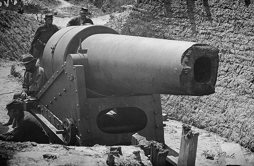 Morris Island, South Carolina. 300-pounder Parrott Rifle after bursting of muzzle